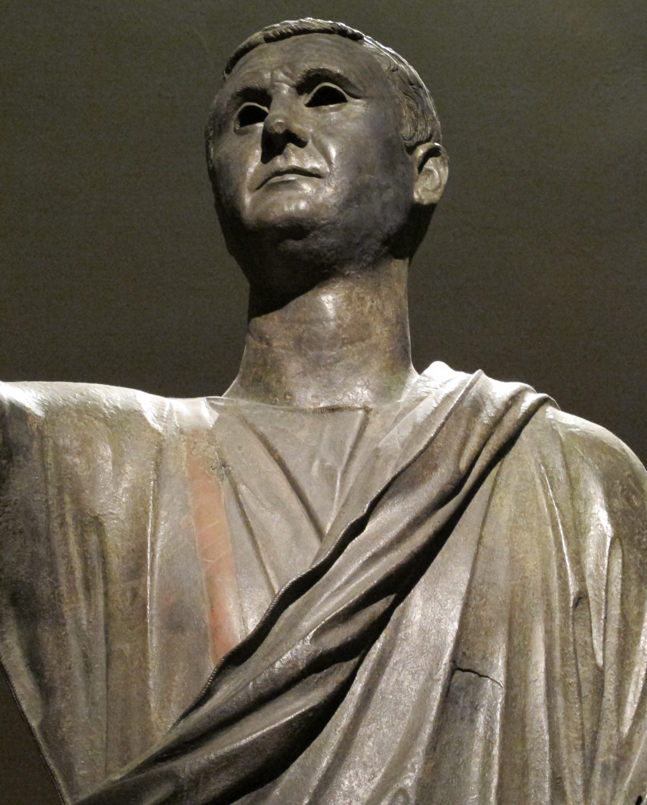 Aule Metele is a Romano-Etruscan work in the Roman style and depicts an Etruscan man wearing a short Roman toga and footwear. His right arm is raised to indicate that he is an orator addressing the public. An inscription on the hem of his toga gives his name and parentage.